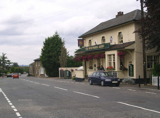 The Whitmore Arms, Orsett Situated on east side of Rectory Road